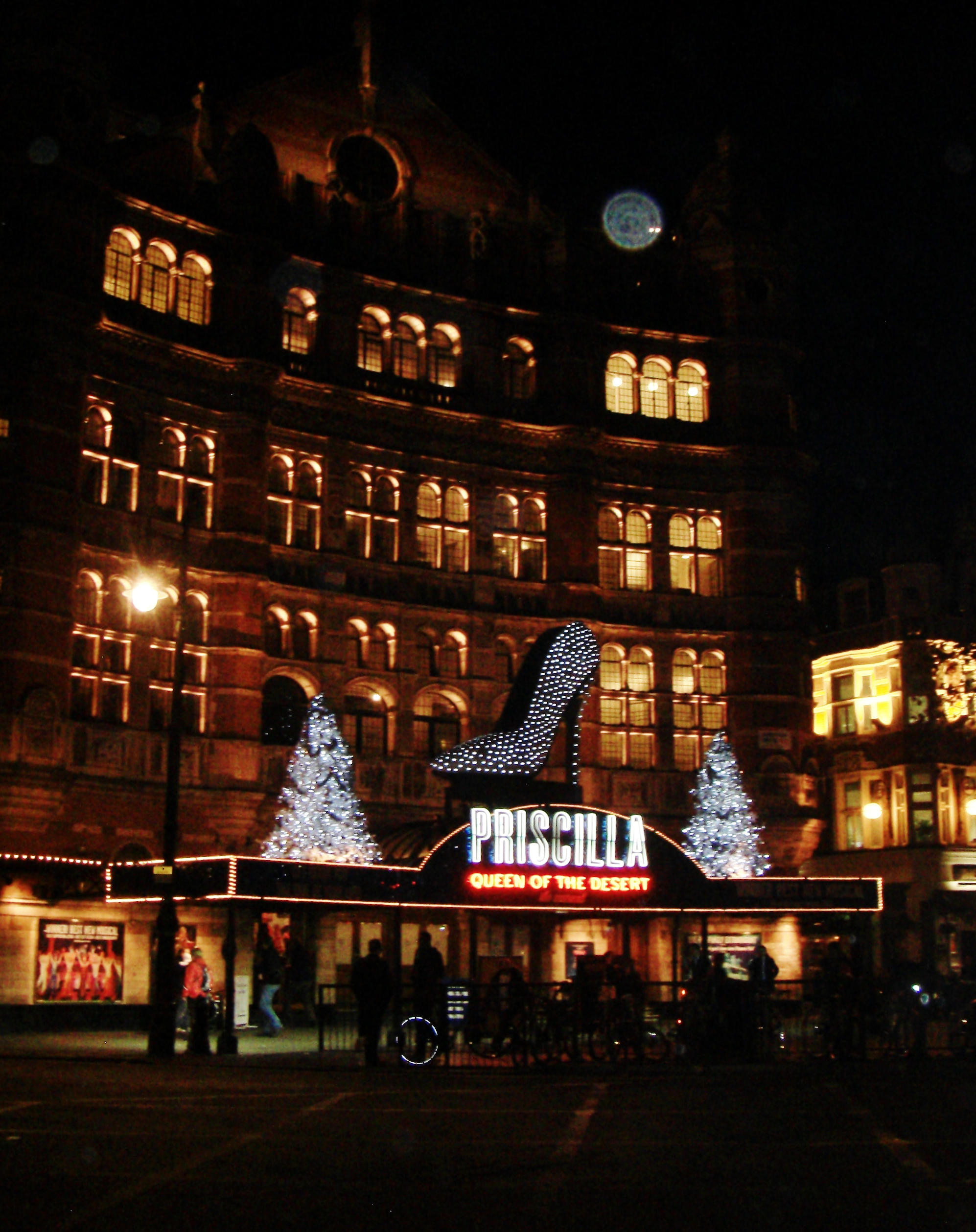 A photograph of the decorations outside the Palace Theatre, London, in December 2011, displaying the giant shoe from The Adventures of Priscilla, Queen of the Desert.